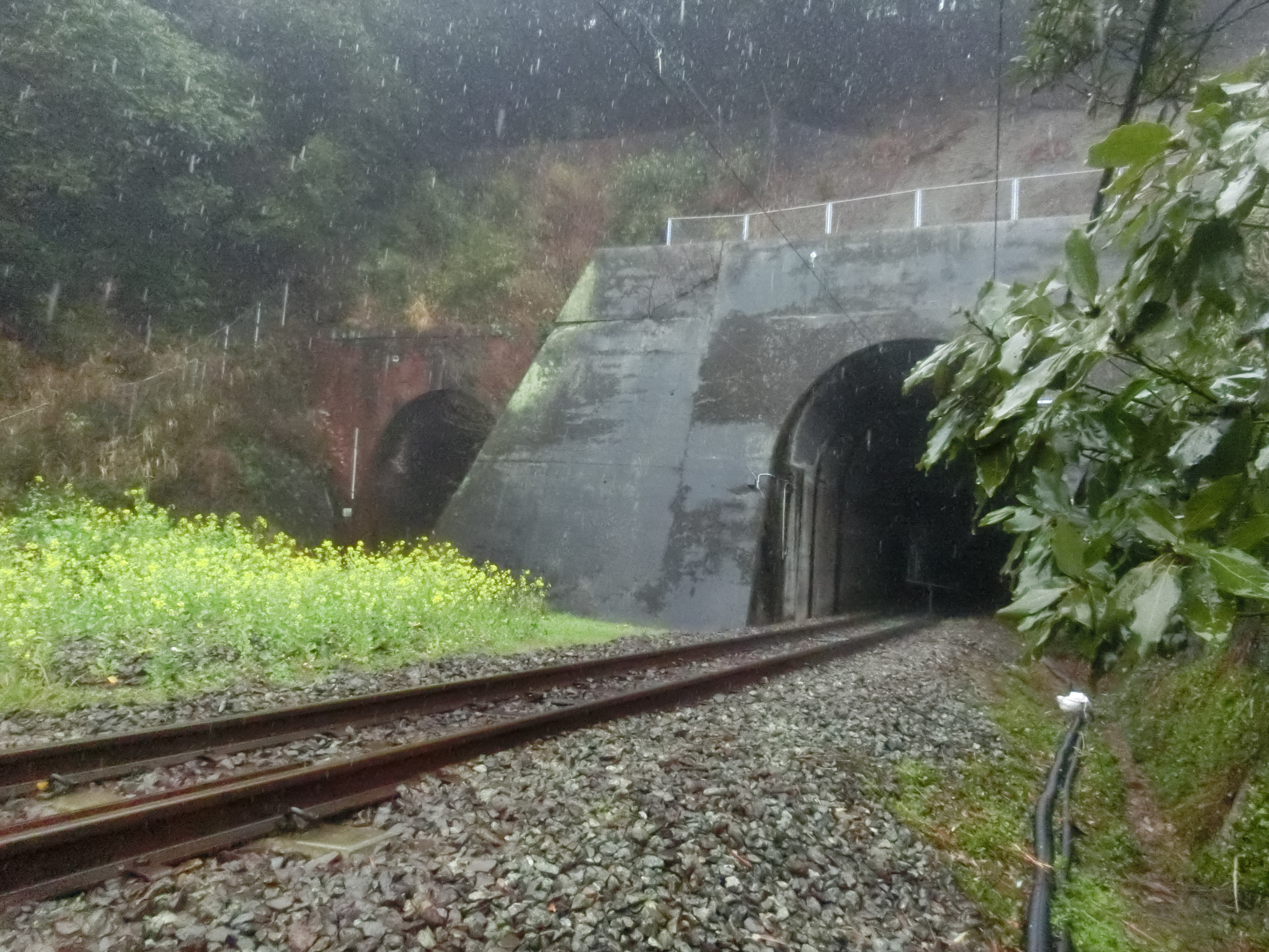 Tunnels at Tokuura Signal Base in Tsukumi City, Oita Prefecture